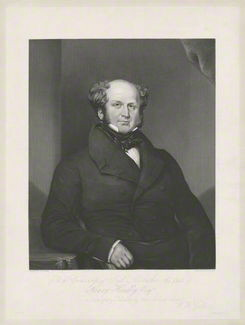 Henry Handley, MP for South Lincolnshire. Painted some time in the 1830's